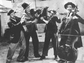 Yidn mit fidl movie still